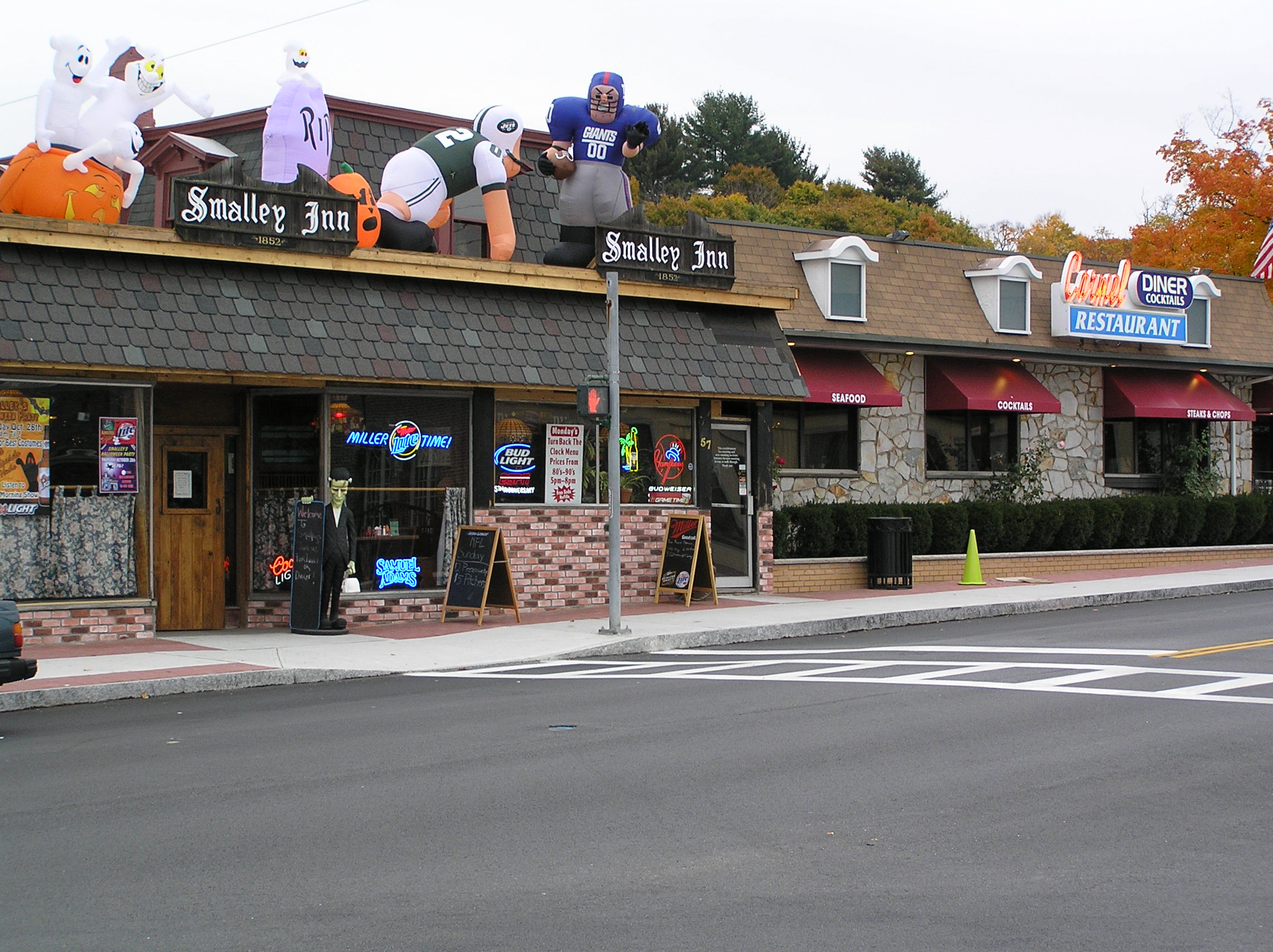 I took this photograph of Smalley Inn on Route 52 in Carmel, New York. GNU Free Documentation License